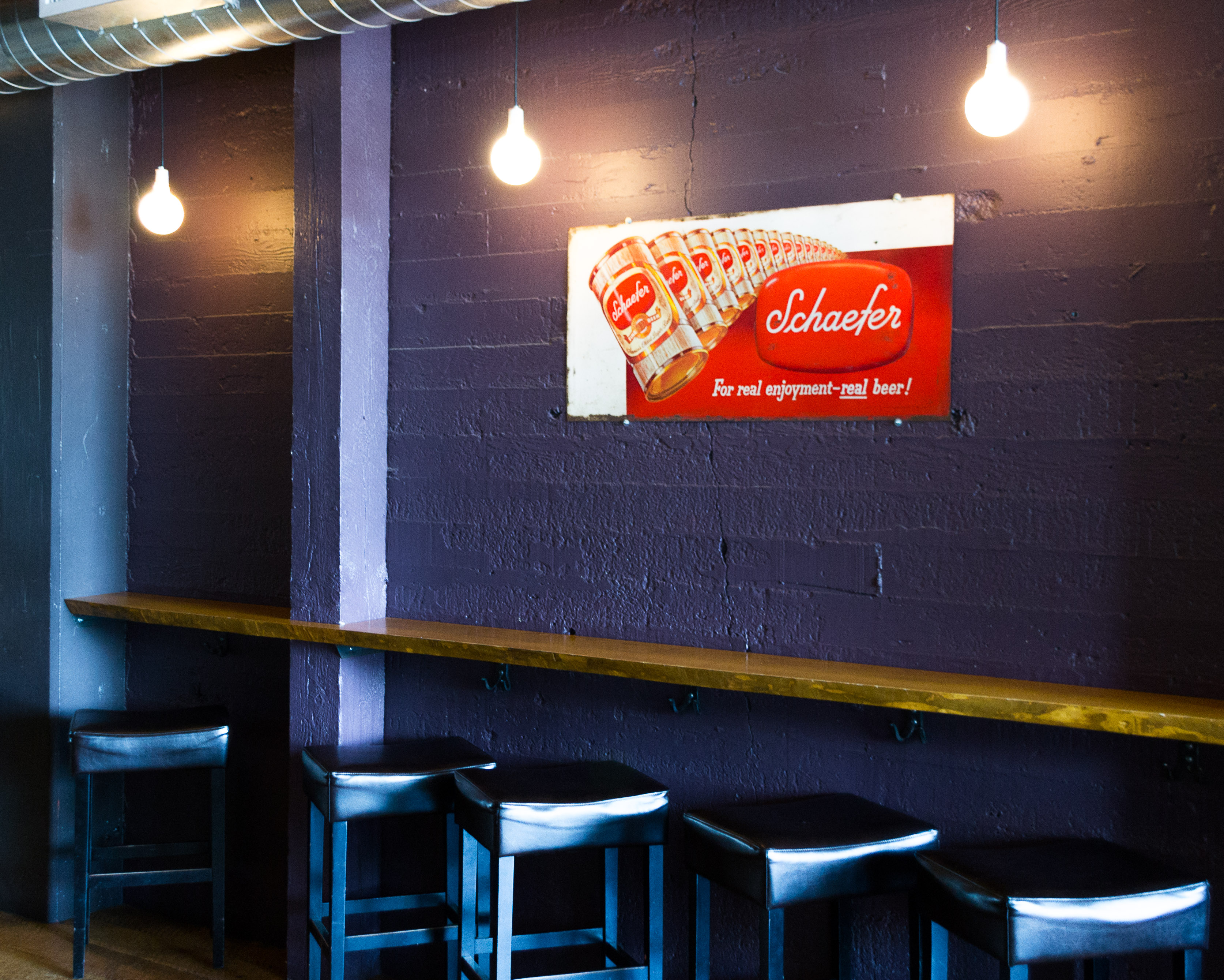 Shaefer Beer memorabilia at the Double Mountain Brewery taproom in Hood River, Oregon